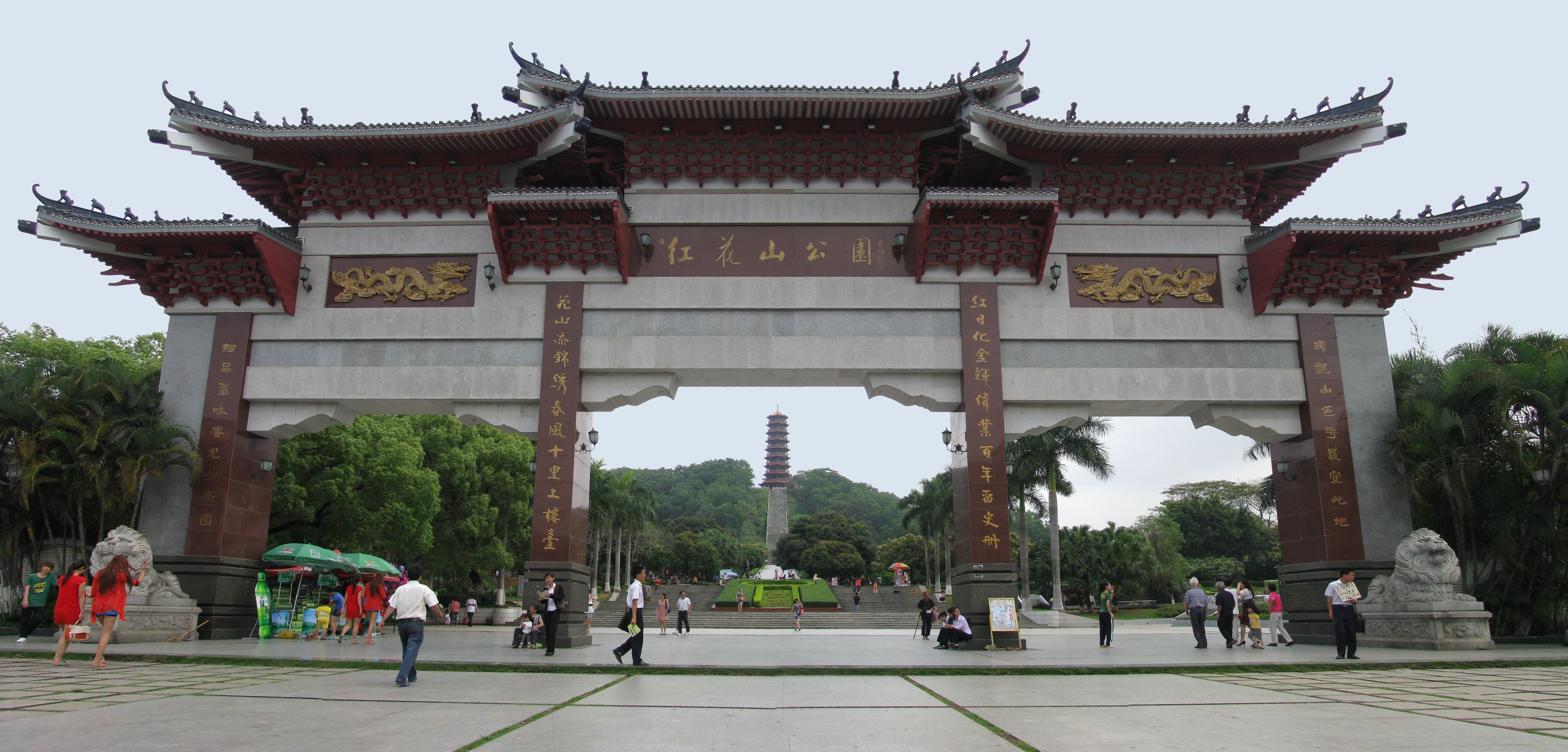 The Honghuashan Park in Bao'an District, Shenzhen, Guangdong, China.